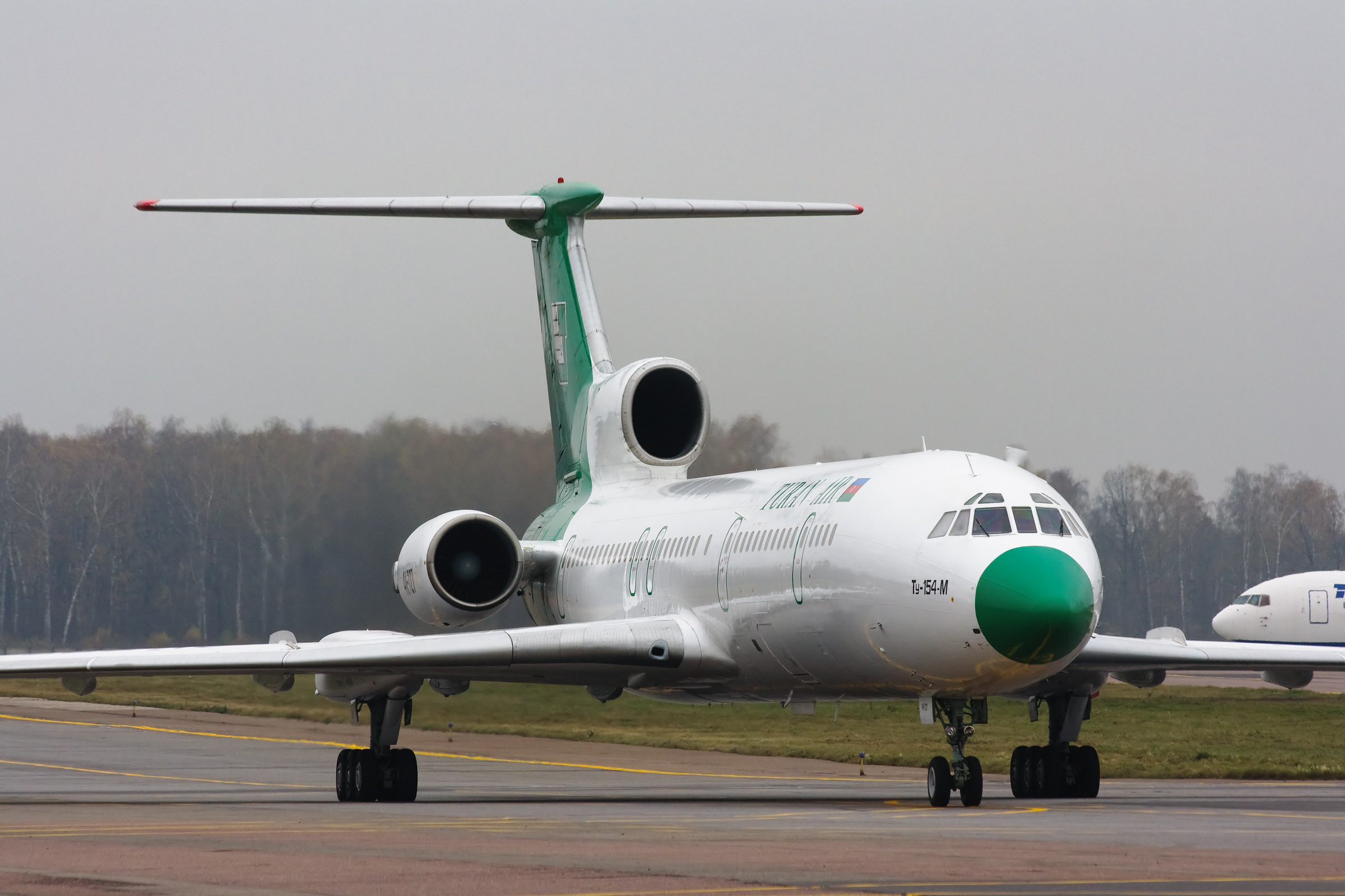 Turan Air Tu-154